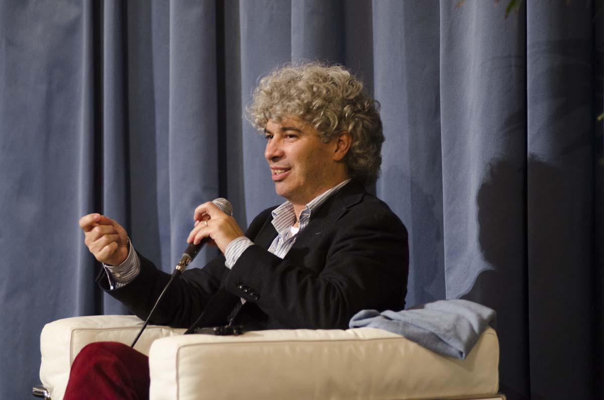 Roberto Cavallo